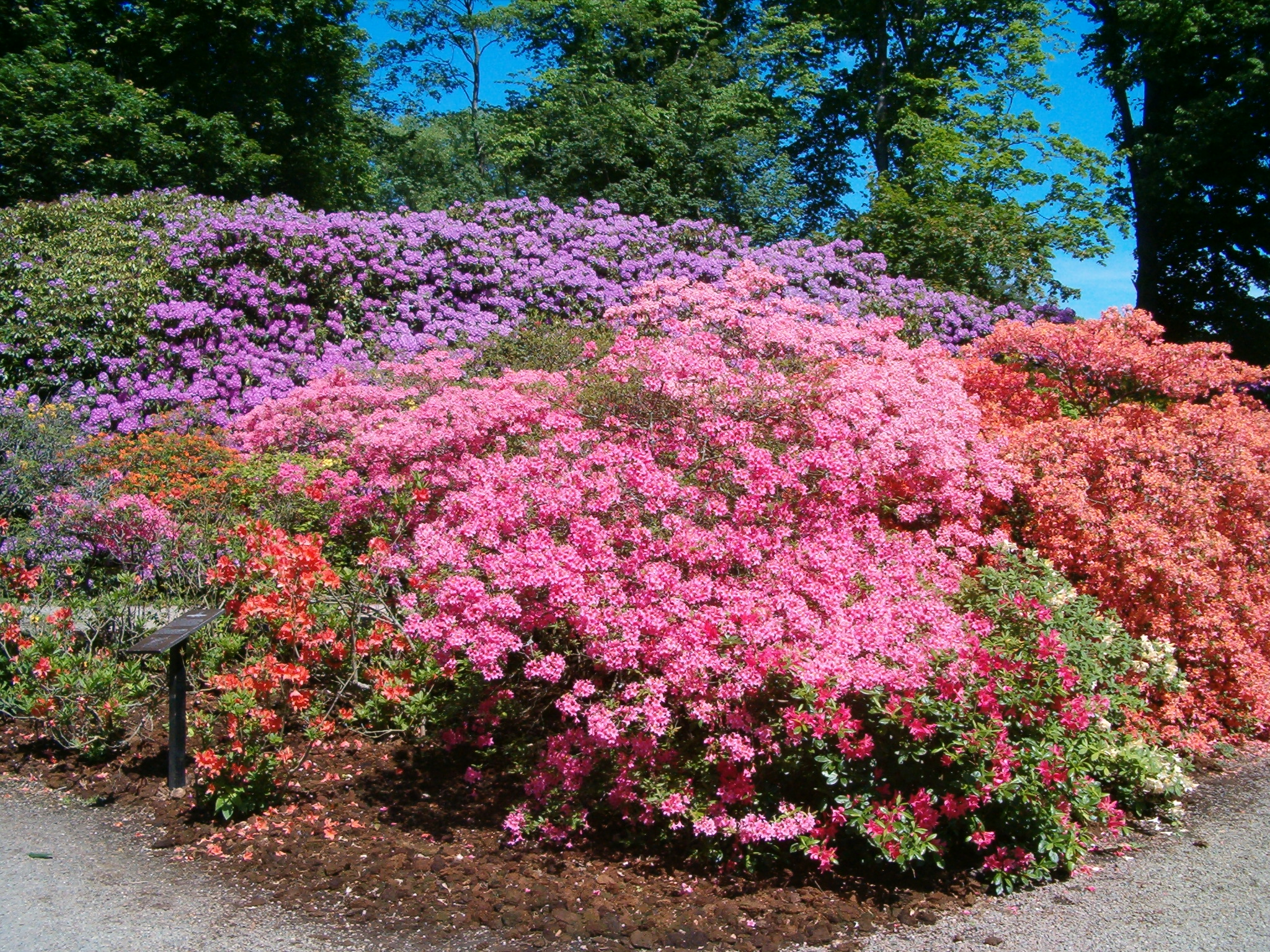 Rhododendron-trees in full bloom at Sofiero castle in Helsingborg, Sweden